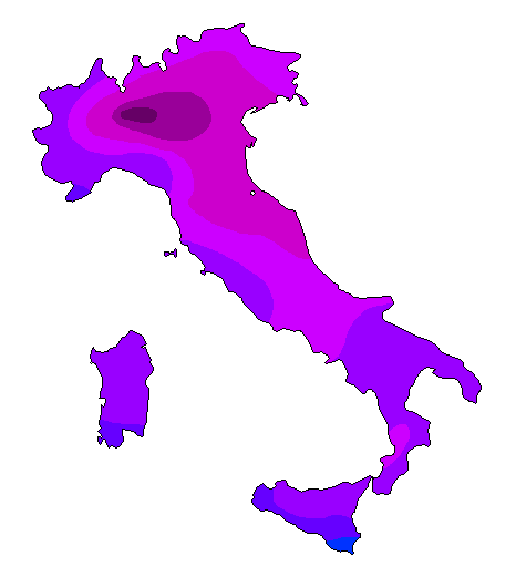 Map of daily sunshine hours in Italy in December